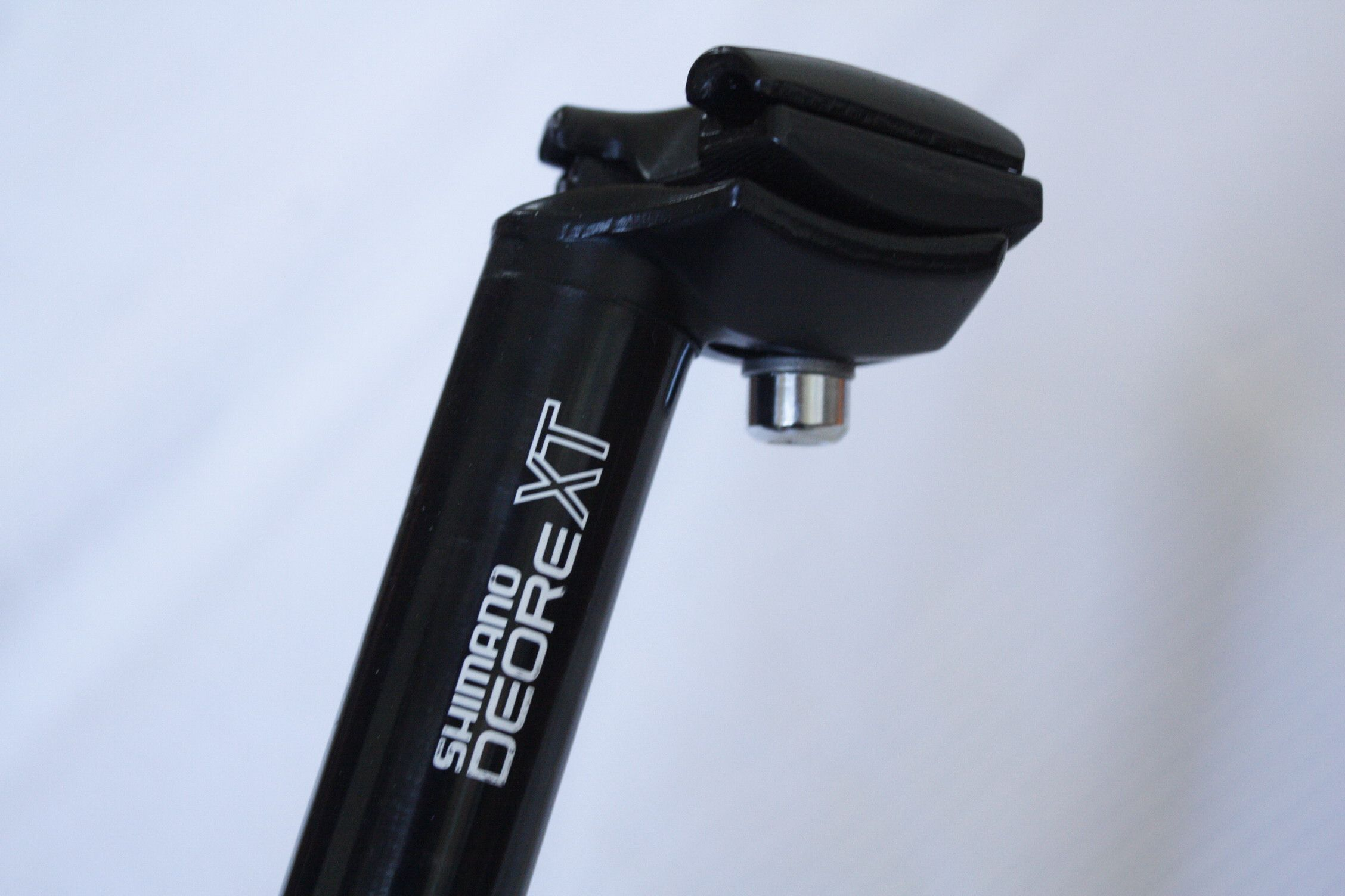 Sattelstütze-xt SP M730